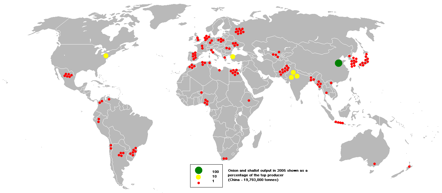 This bubble map shows the global distribution of onion and shallot output in 2005 as a percentage of the top producer (China - 19,793,000 tonnes). This map is consistent with incomplete set of data too as long as the top producer is known. It resolves the accessibility issues faced by colour-coded maps that may not be properly rendered in old computer screens. Data was extracted on 11th June 2007 from Based on Image:BlankMap-World.png